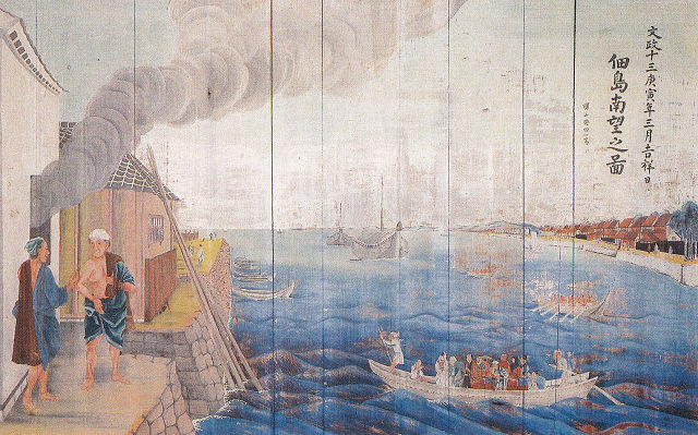 Southerly View of Tsukuda Island (ema), Tamura Jinja, Koriyama, Fukushima, Japan